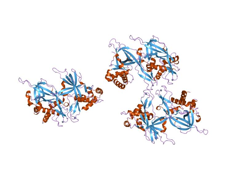 Cartoon representation of the molecular structure of protein registered with 1ltl code.